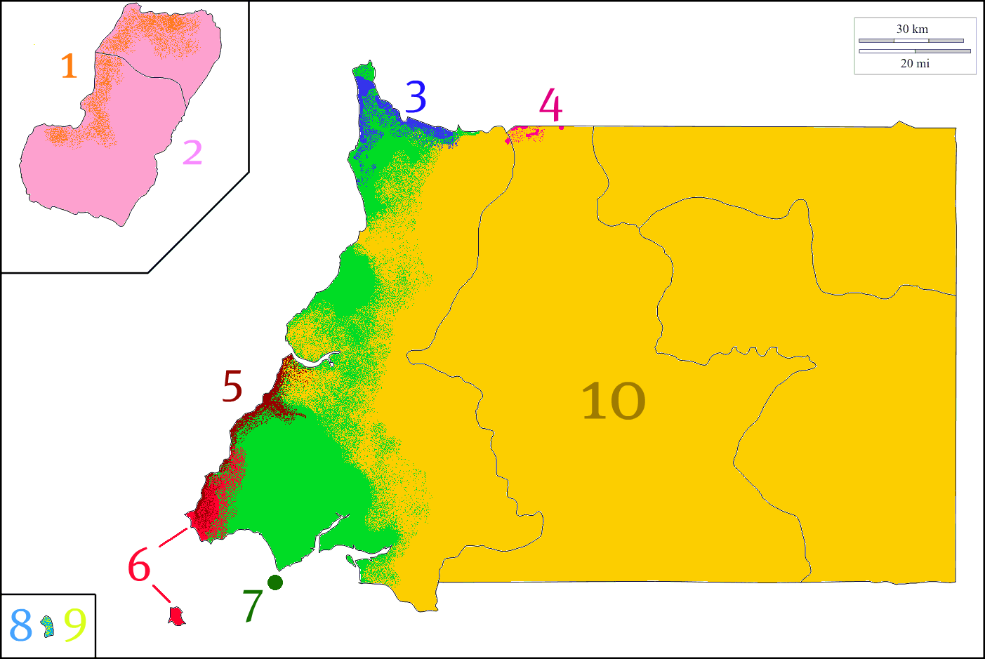 This map shows the Ecuatorial Guinea's ethnic groups distribution. 1. Fernandino people: in Malabo city and Luba 2. Bubi people: in Bioko Island 3. Igbo people: in North-west territories (Campo River Delta) 4. Baka people: in Acot area (North of Centro Sur province) 5. Bujeba people (also Balengue or Bisio): in along the coast between Mbini River and St. John's Cape. 6. Benga people (also "Playeros"): in St. John's Cape and Corisco island 7. Gabonese people: in Cocobeach City 8. Annobonese people: in Annobon Island 9. Fa D'Ambô people (also Portuguese-creole people): in Annobon Island 10. Fang: at the moment, in all Equatorial Guinea, but originally only at the interior of the country. Also there are spaniards in all the country.